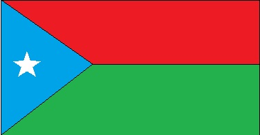 Flag of Baloch Republican Army (B.R.A) and Independent Balochistan